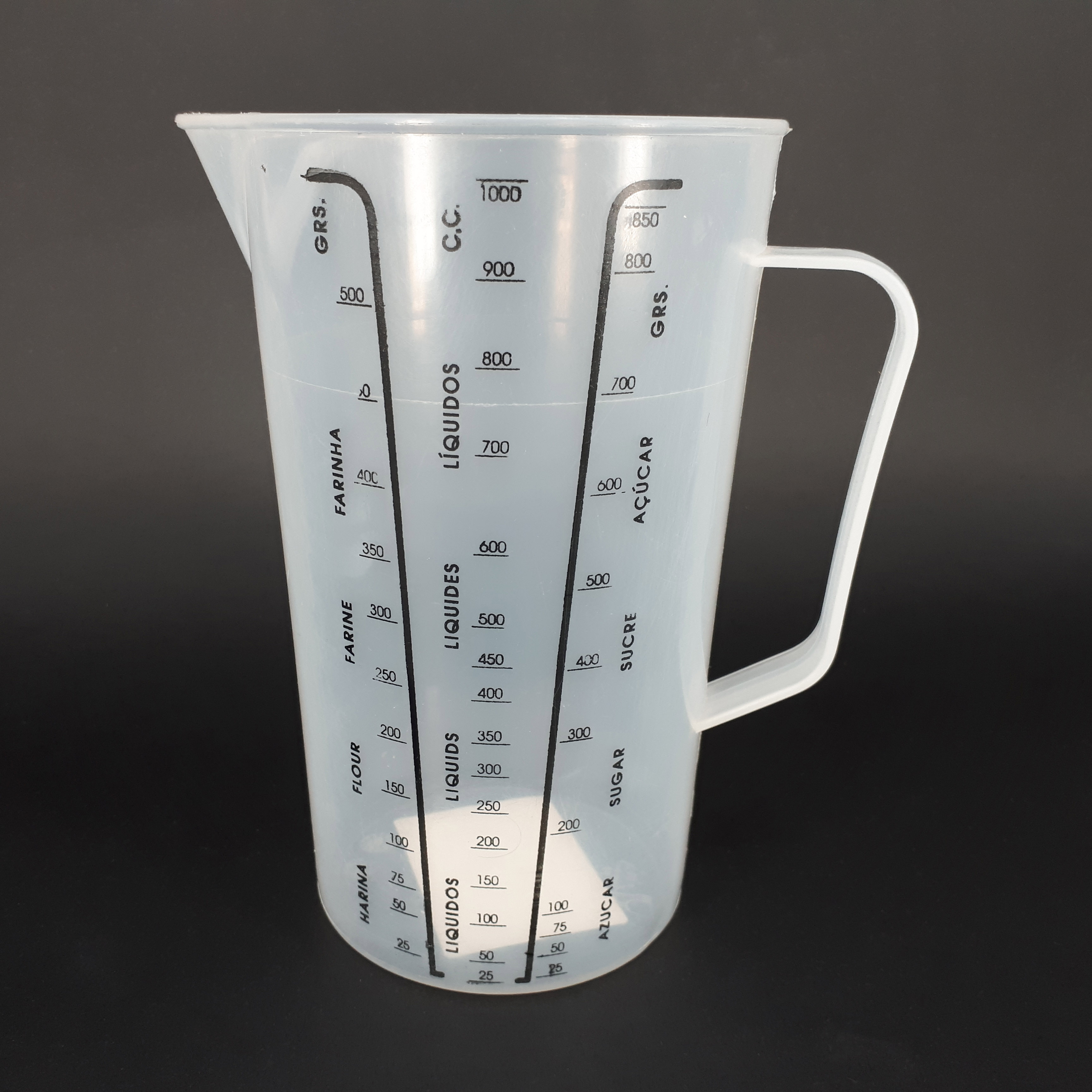 Plastic measuring cup